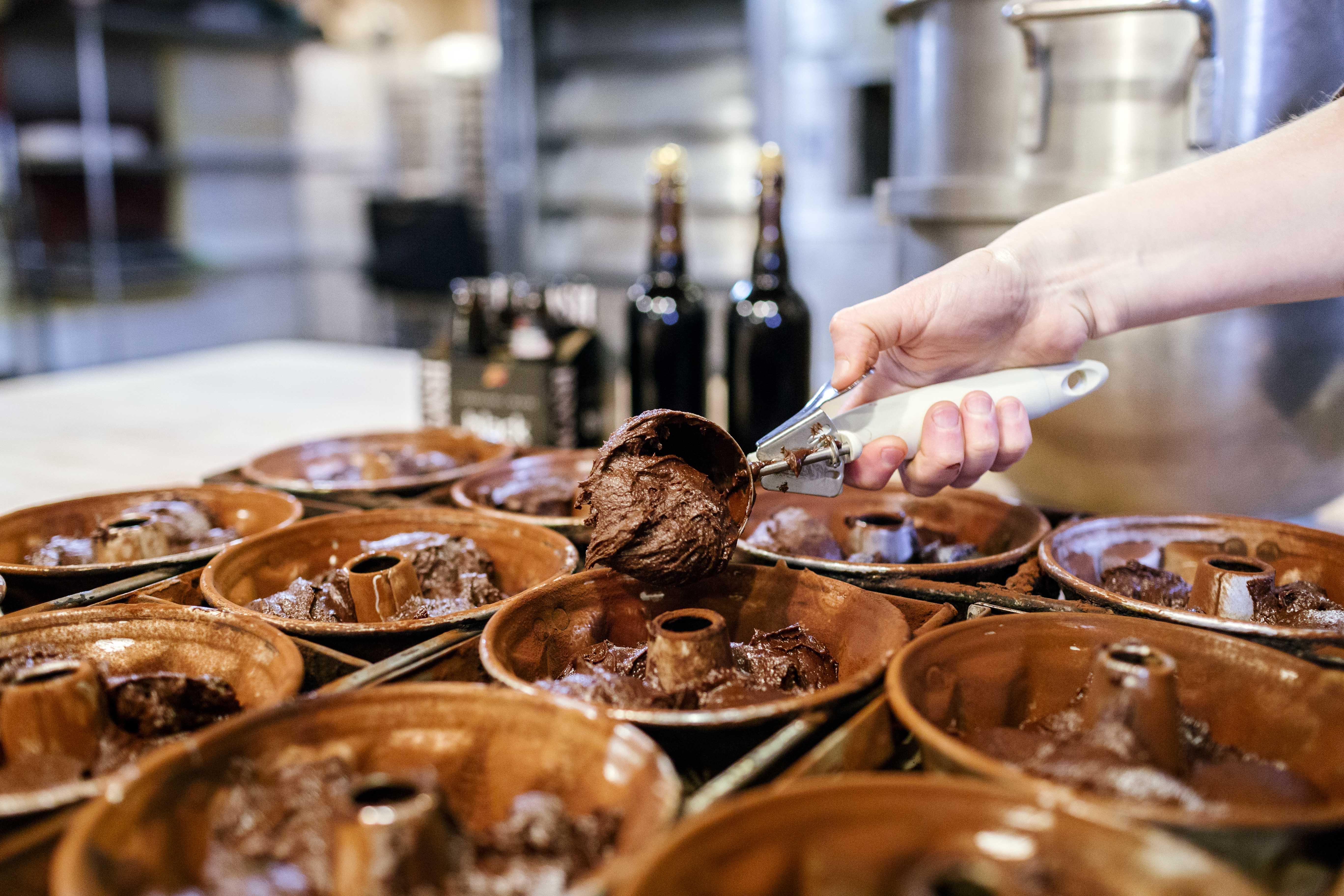 Chocolate Stout Cakes with Allagash Black